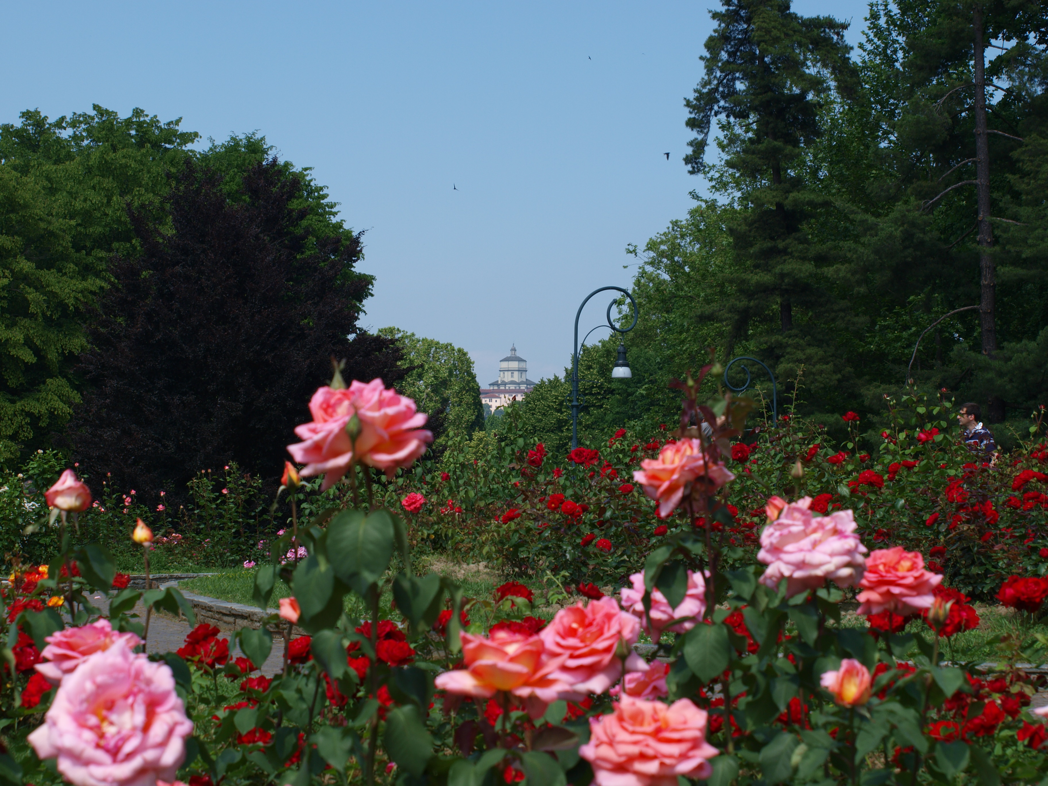 Rose Garden, Valentino Park, Turin, Italy